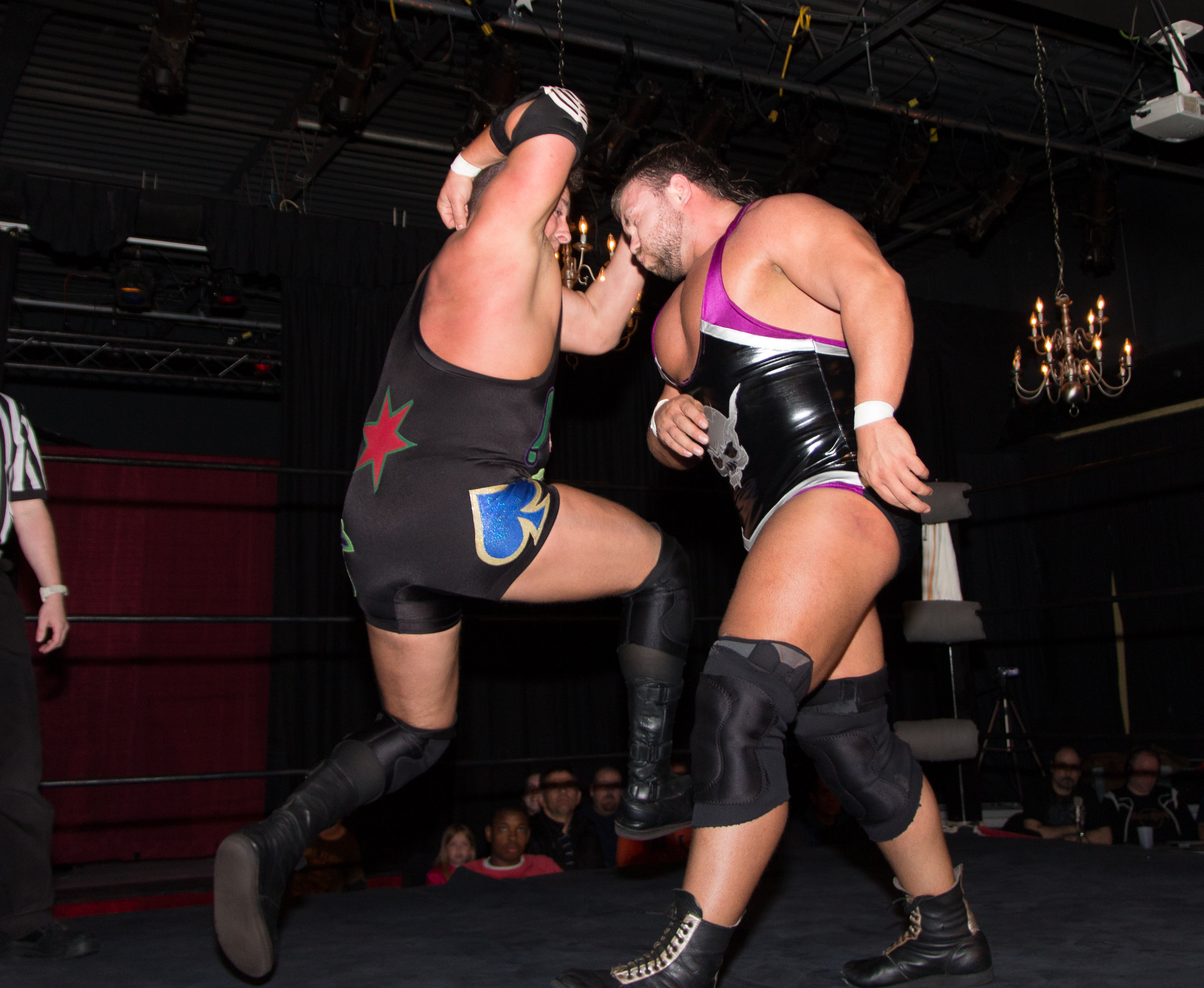 Colt Cabana hitting Michael Elgin with a bionic elbow